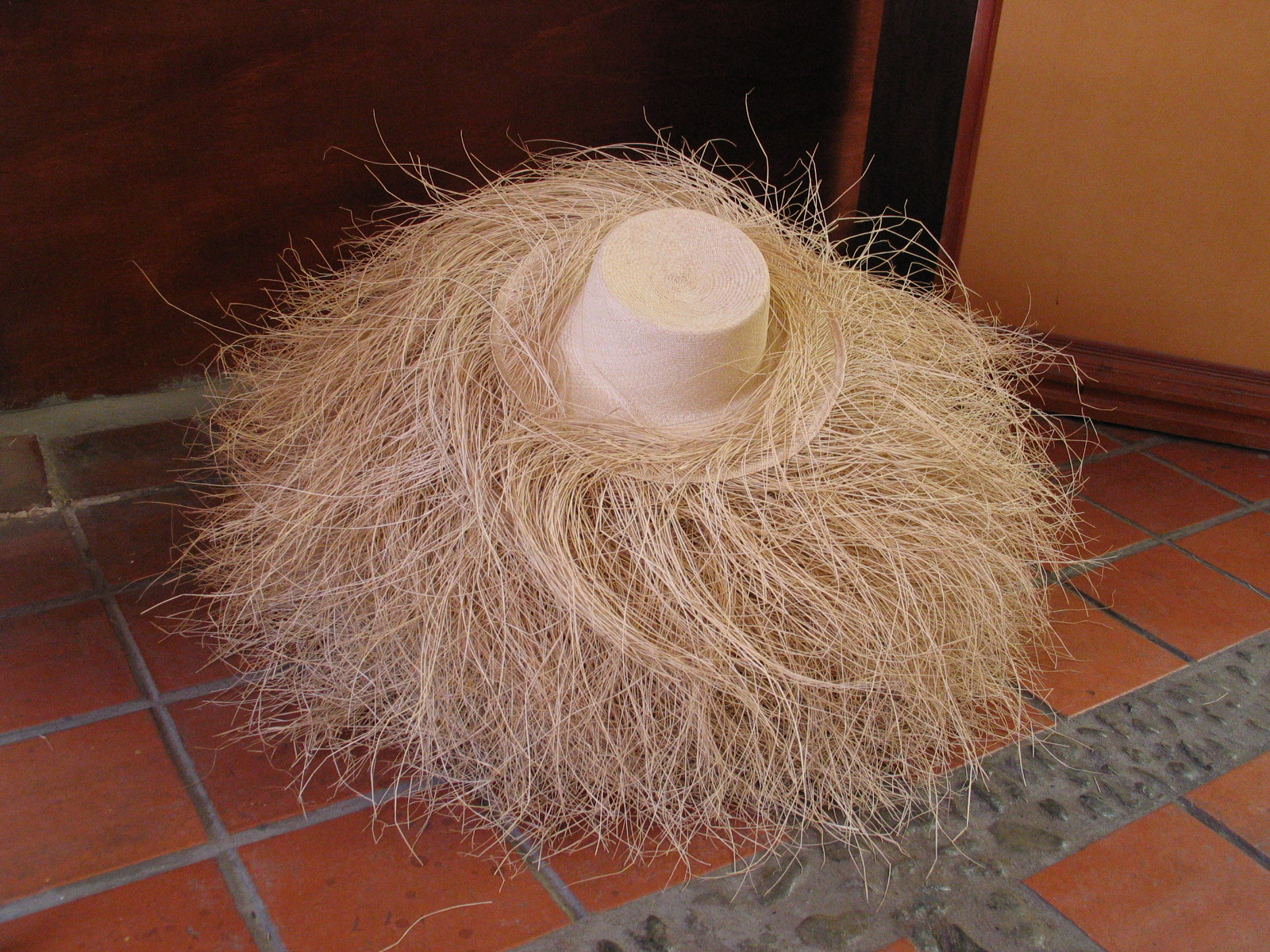 manufacturing of panama-hats in Cuenca, Ecuador